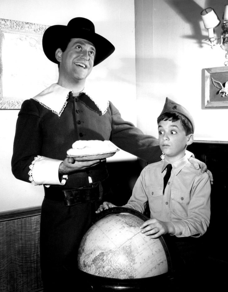 Photo of Soupy Sales and Scott Lane as Gary McKeever from the television program McKeever and the Colonel. Sales guest stars as a comedian who is an alumnus of the school and has come back for a visit.